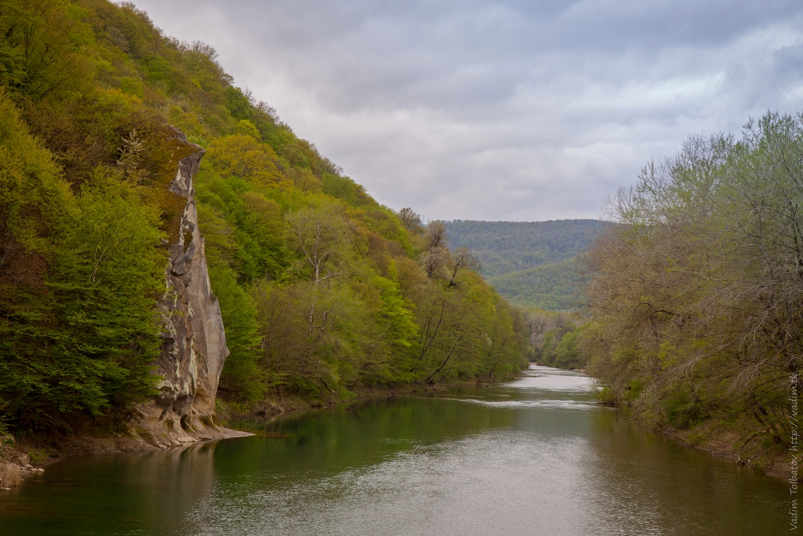 Psekups river, "Petushok" (Rooster) cliff.